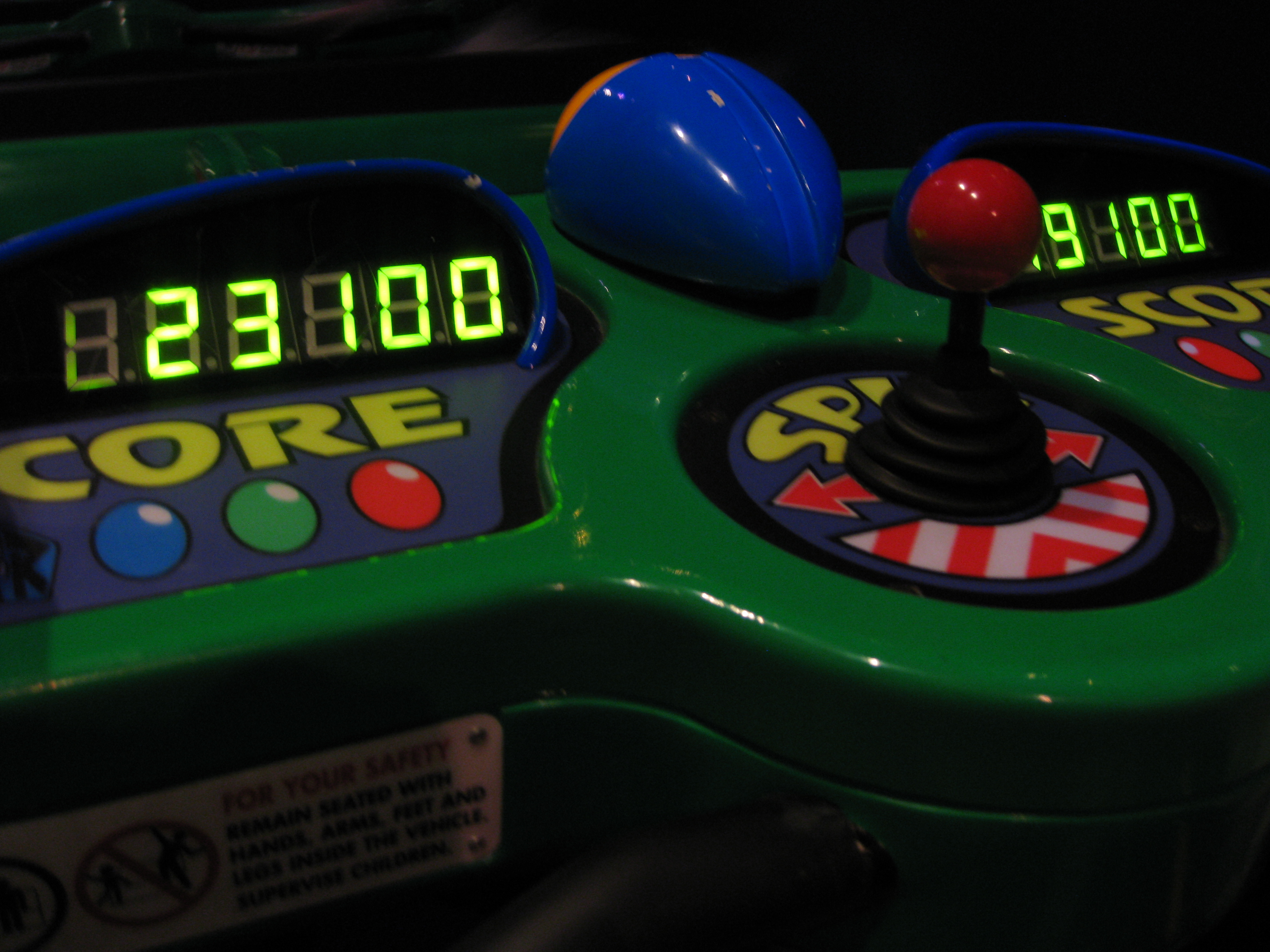 Tomorrowland at Disneyland